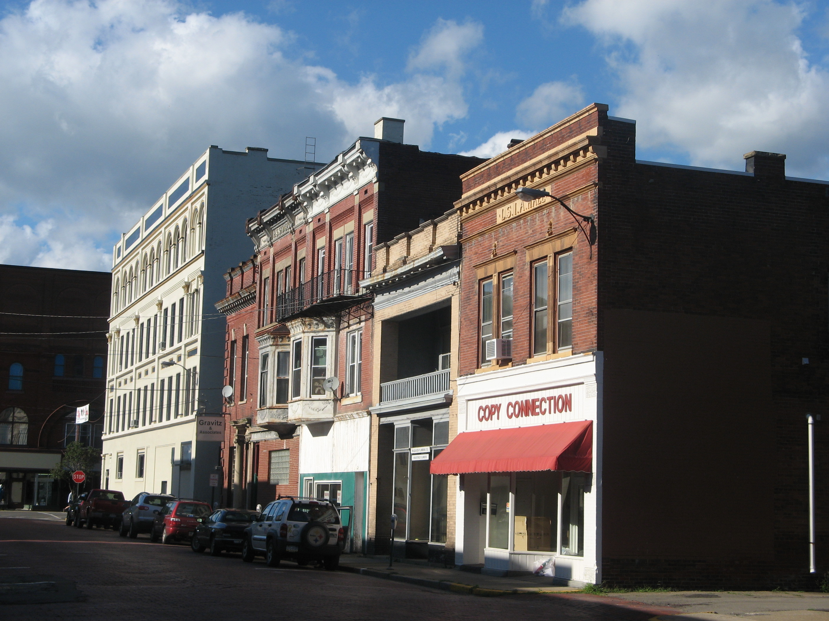 Buildings in the downtown area, Bradford, PA, USA